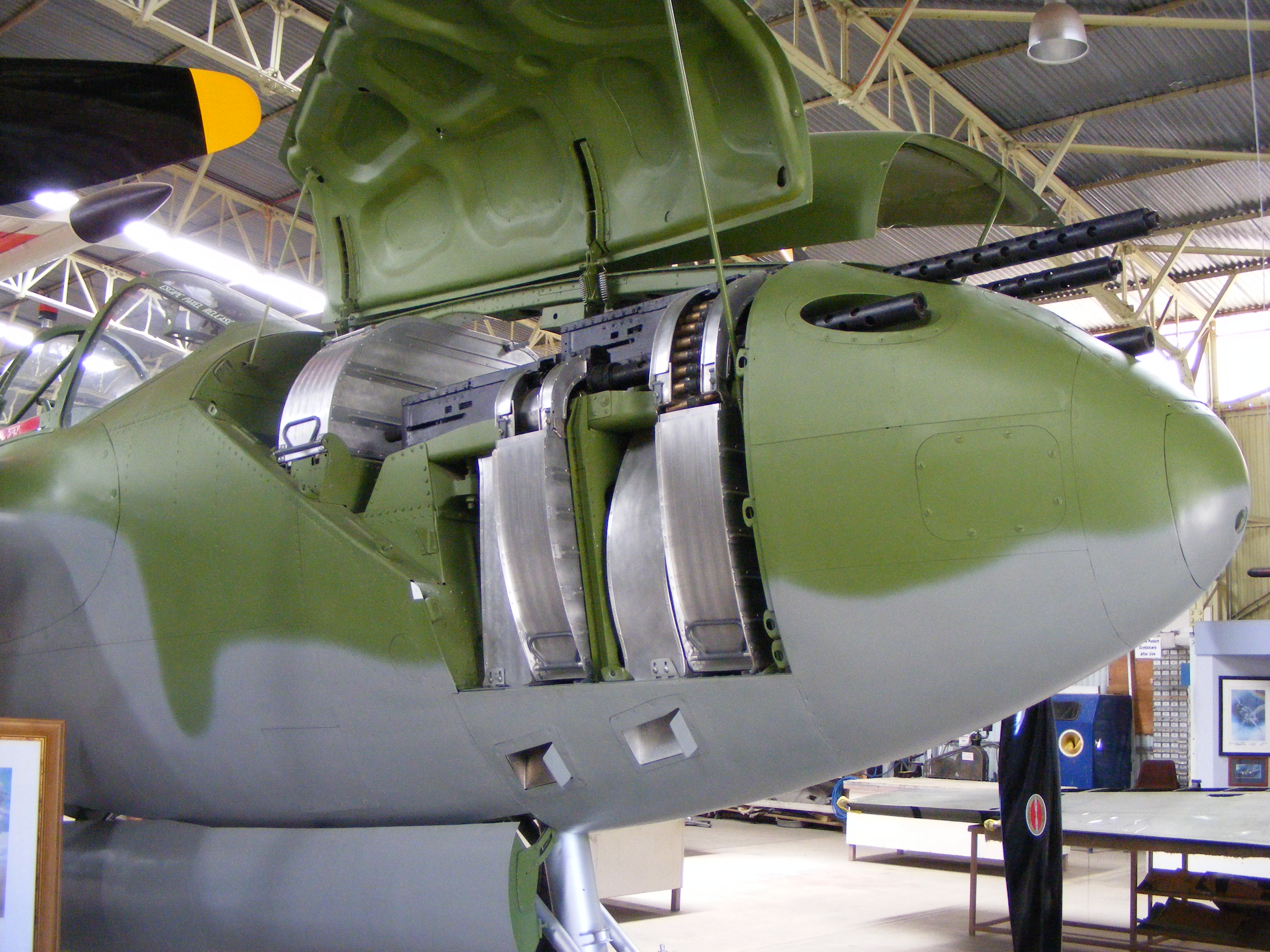 P-38 Lockheed lightning gun and ammo detail. Airplane on static display at the the Classic Jets Fighter Museum, Parafield airport, Adelaide, South Australia